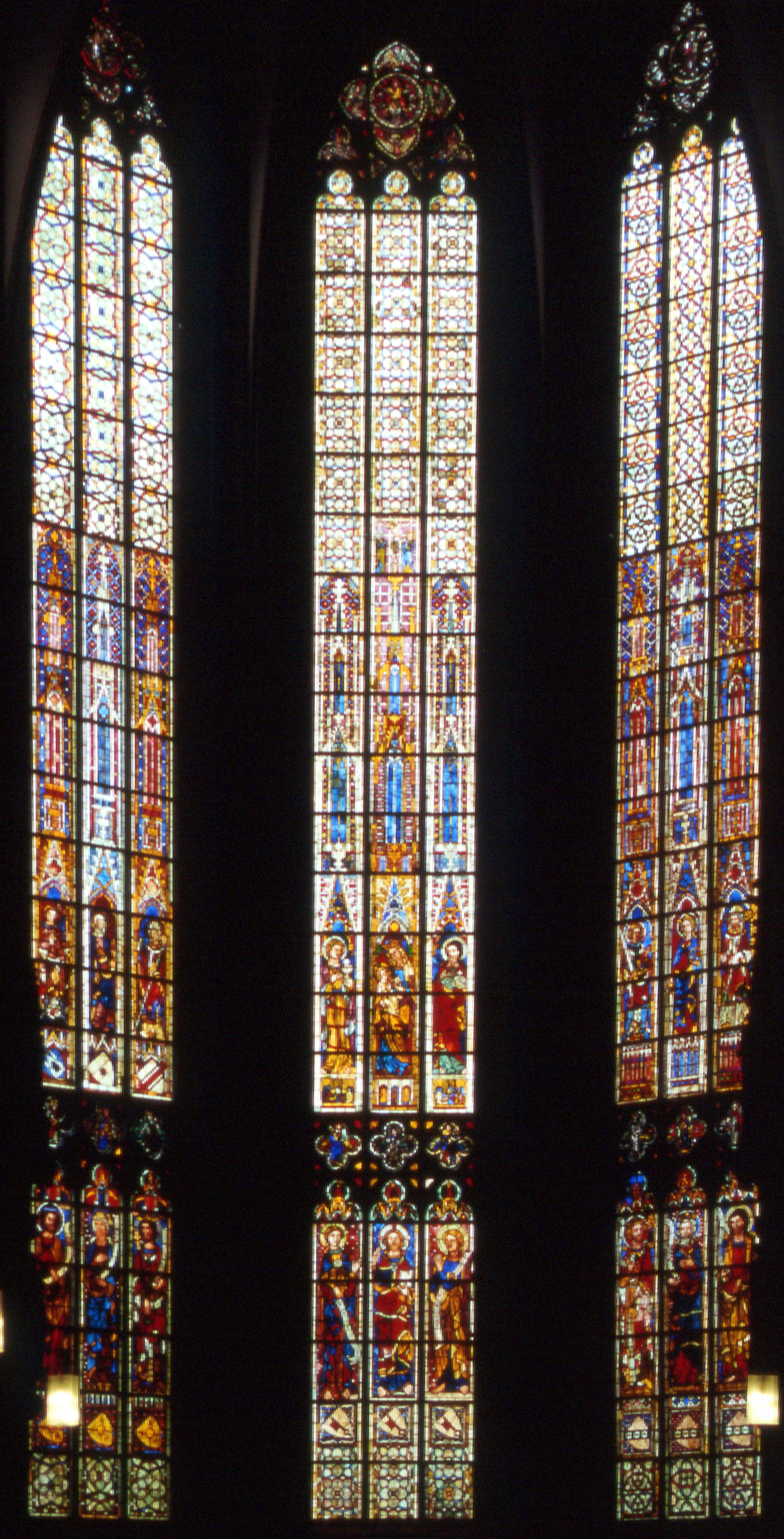 Soest (Germany), church St. Mary 'zur Wiese', stained glass windows in choir